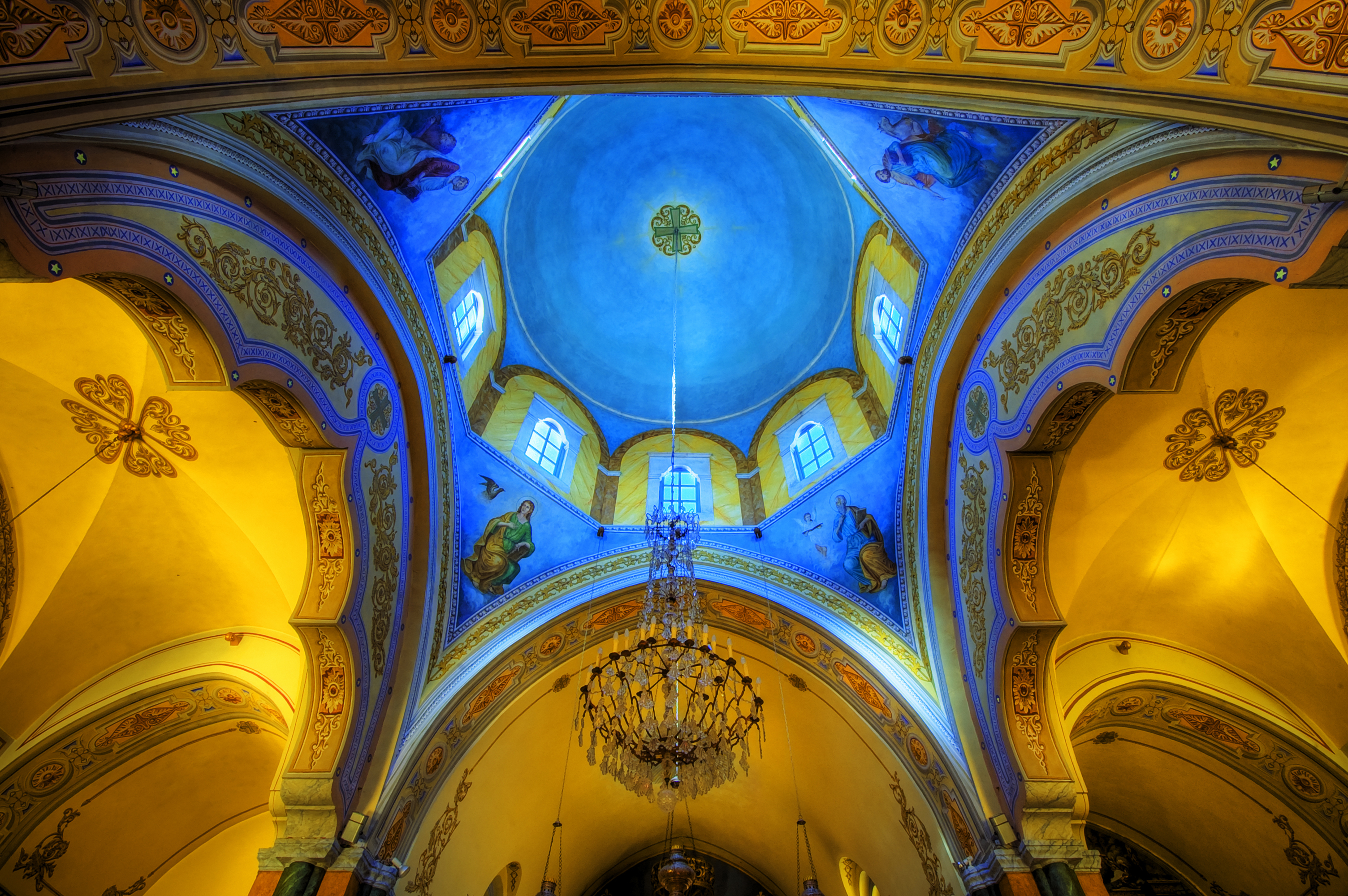 Sean John The Baptist Cathedral, Thira, Santorin